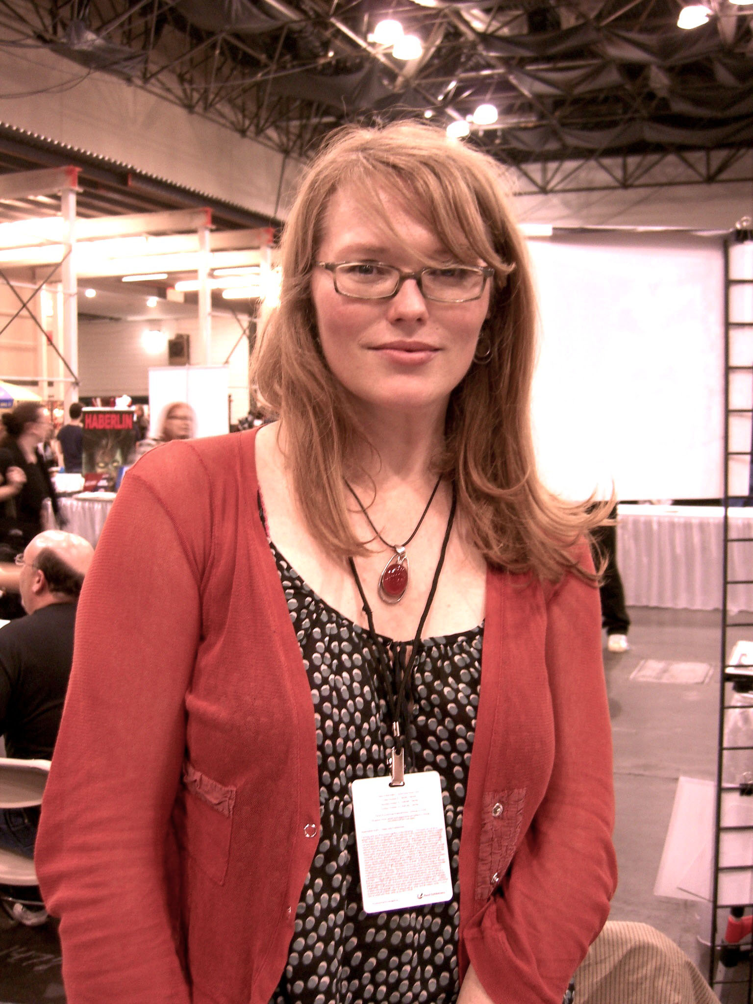 Comic book creator Nicola Scott, at the New York Comic Convention in Manhattan, October 10, 2010. Photo by Luigi Novi. This photo may be used, modified and published for any purpose, only if a easily visible credit to the photographer is placed near the photo in each instance in which it is used. (See licensing information below.) Publication of this photo without this proper attribution constitute copyright infringement. For more information on my photos, you can contact me here.